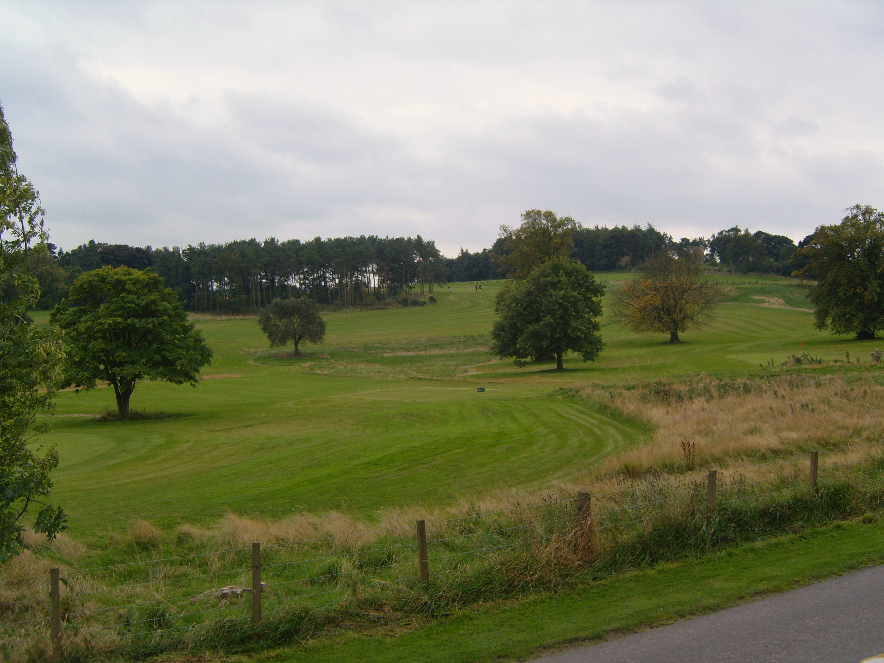 Hill of Tarvit (my photo)